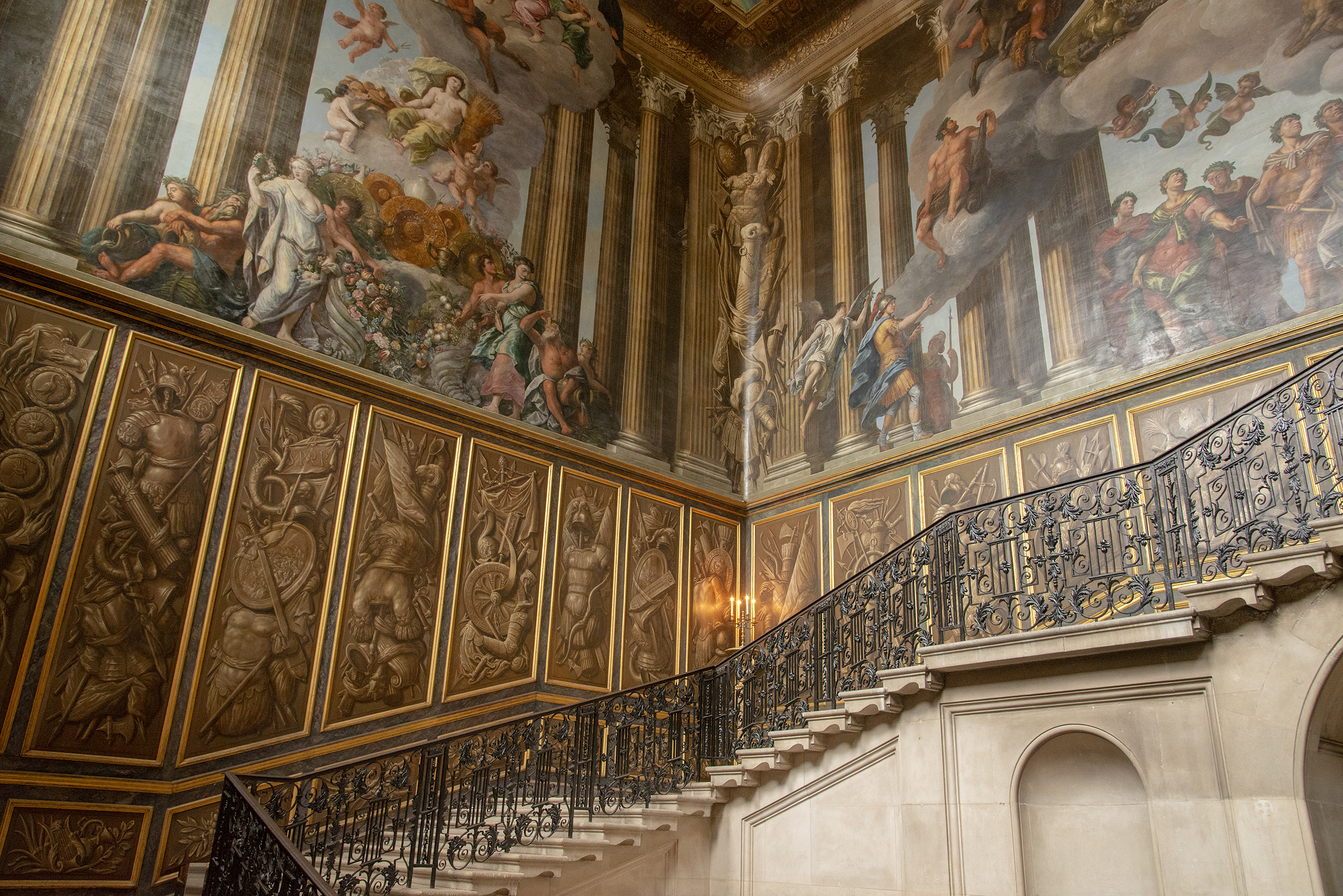 One of the sets of stairs at the main entrance